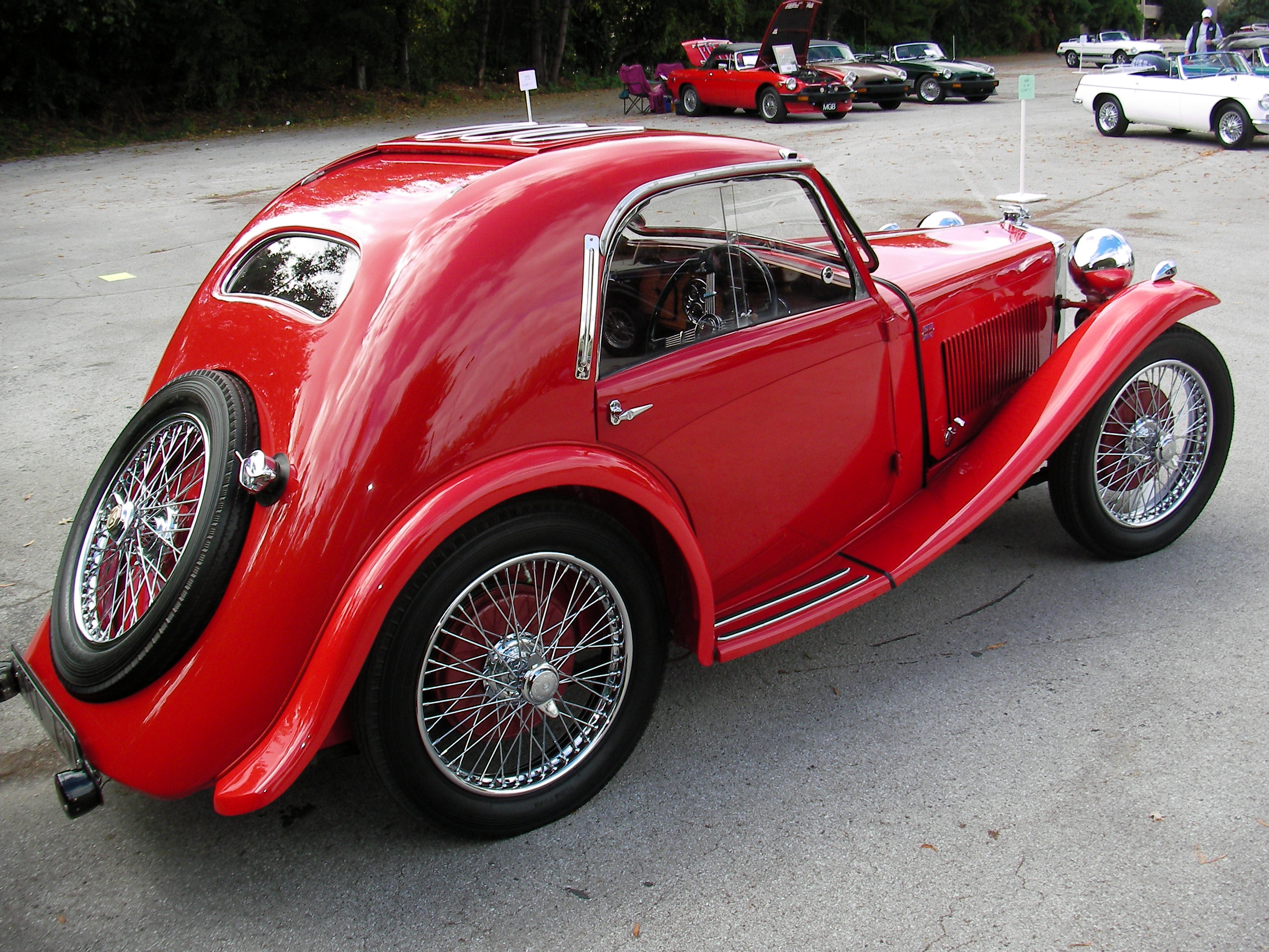 MG PA Airline Coupe rear